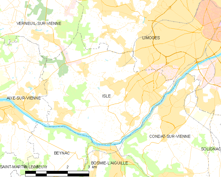 Map of French municipality Isle